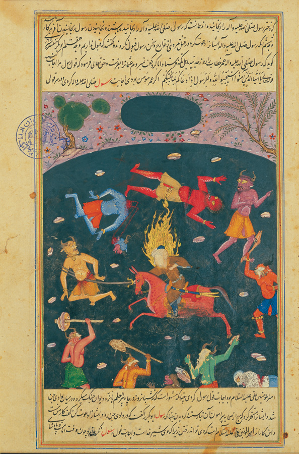 Imam Ali Conquers Jinn, unknown artist, from the book Ahsan-ol-Kobar (1568), Golestan Palace.